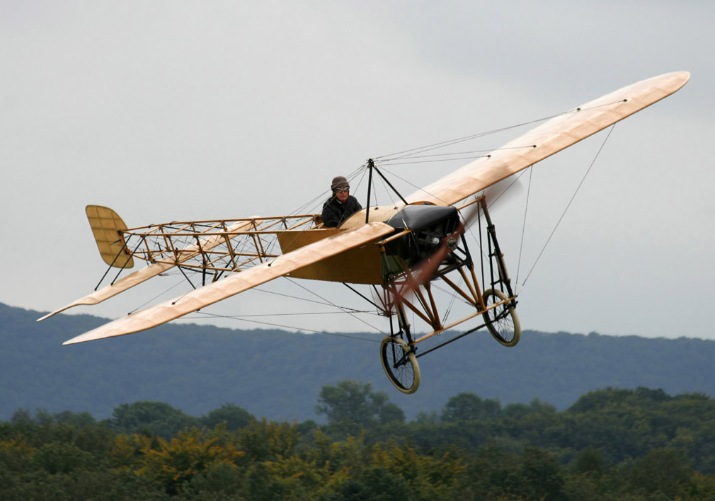 Mikael Carlson owns and flies two of these Blériot XI’s, orginally built by AETA - AB Enoch Thulins Aeroplanfabrik - under the name Thulin A. The first one was found by Mikael in a barn in the late 80’s, disassembled but complete. Mikael restored it to flying condition, took off for the first time in 1991 and have been flying it regularly every year since then. This plane has not only participated in a number of air displays and film productions all over the world but it is also the plane in which Mikael recreated the crossing of the English Channel in 1999, exactly 90 years after Louis Blériot! (